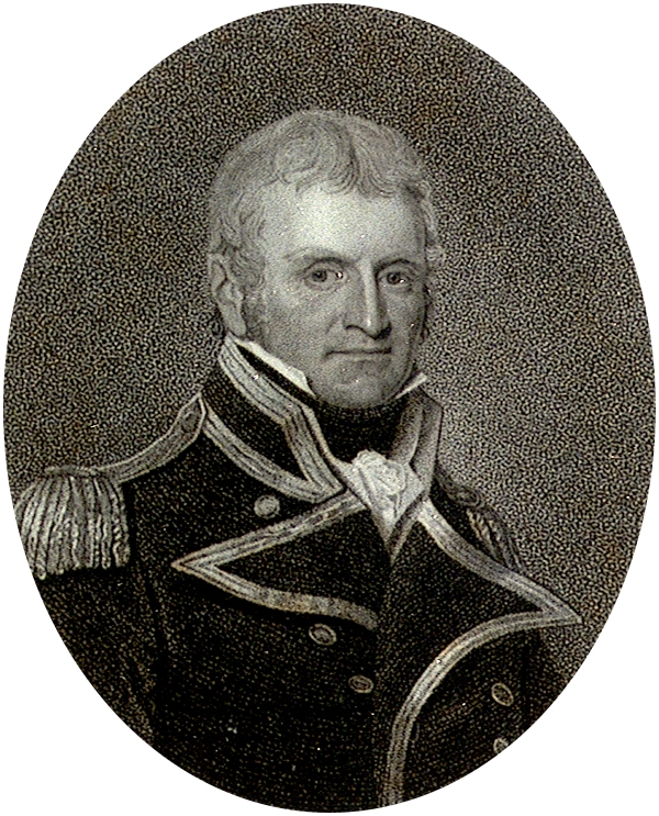 Captain John Shortland, 1769-1810. This print is based on a miniature of the sitter, now MNT0089, this copy being presented with it. It originally accompanied a memoir of Shortland published in the 'Naval Chronicle' for 1810, just after his death. The original was most probably painted at Halifax, Nova Scotia, by Field - who then worked there - probably in late 1807 or early 1808 since it shows only the right epaulette, indicating a captain of under three years' seniority. The engraver has here added the left epaulette, since Shortland was a senior captain by the time he died of wounds at Basseterre in the West Indies in January 1810. [PvdM 5/10]